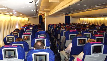 Interior of a Boeing 747-400 (cropped; edited)